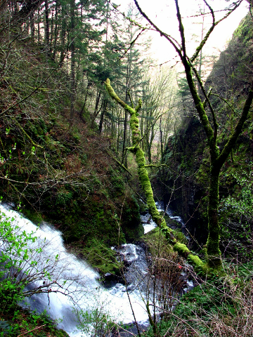 Waterfall at Shepperd's Dell State Natural Area, Oregon, United States. Just above the photo frame is an overcrossing bridge of the Historic Columbia River Highway.